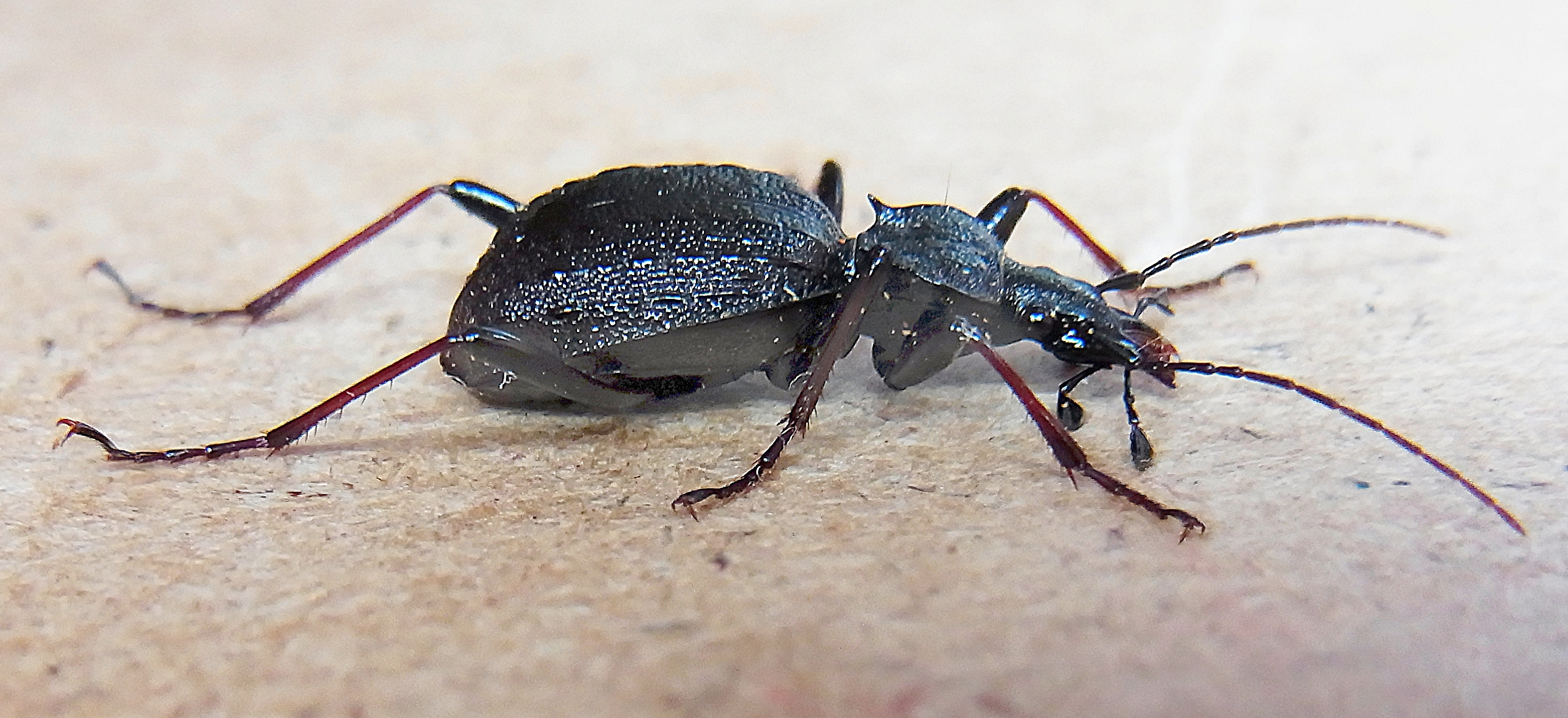 Cychrus spinicollis from northern Spain, Es33887 Berducedo Asturias at 2013-08-06